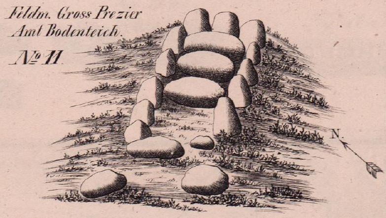 Megalithic tomb near Kahlstorf, Sprockhoff-No. 803